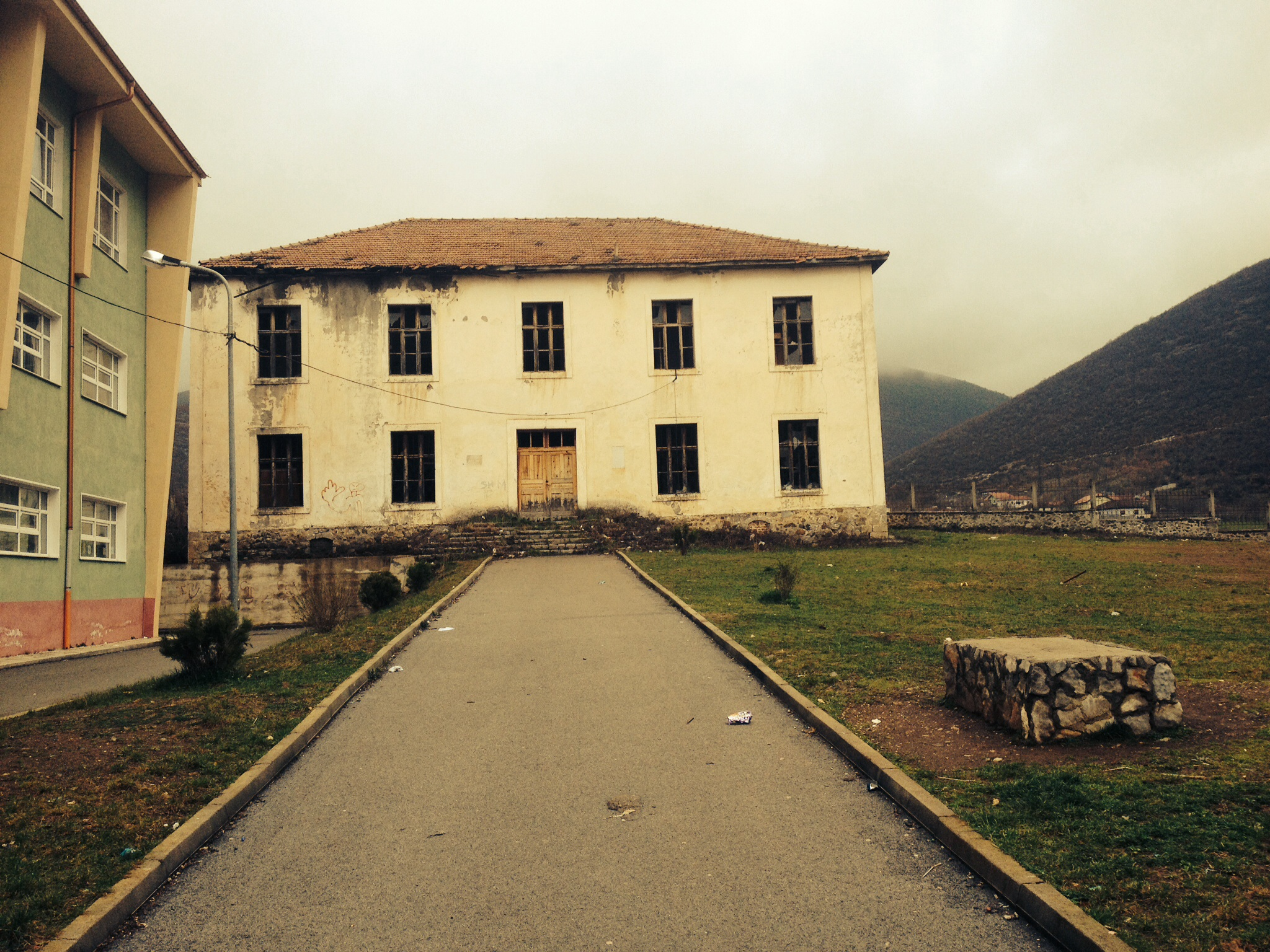 Kosova internati